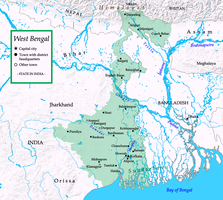 Map of West Bengal